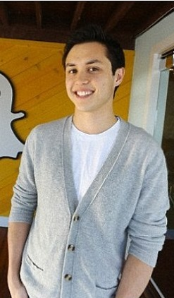 Photo by J. Emilio Flores - New York Times / REDUX